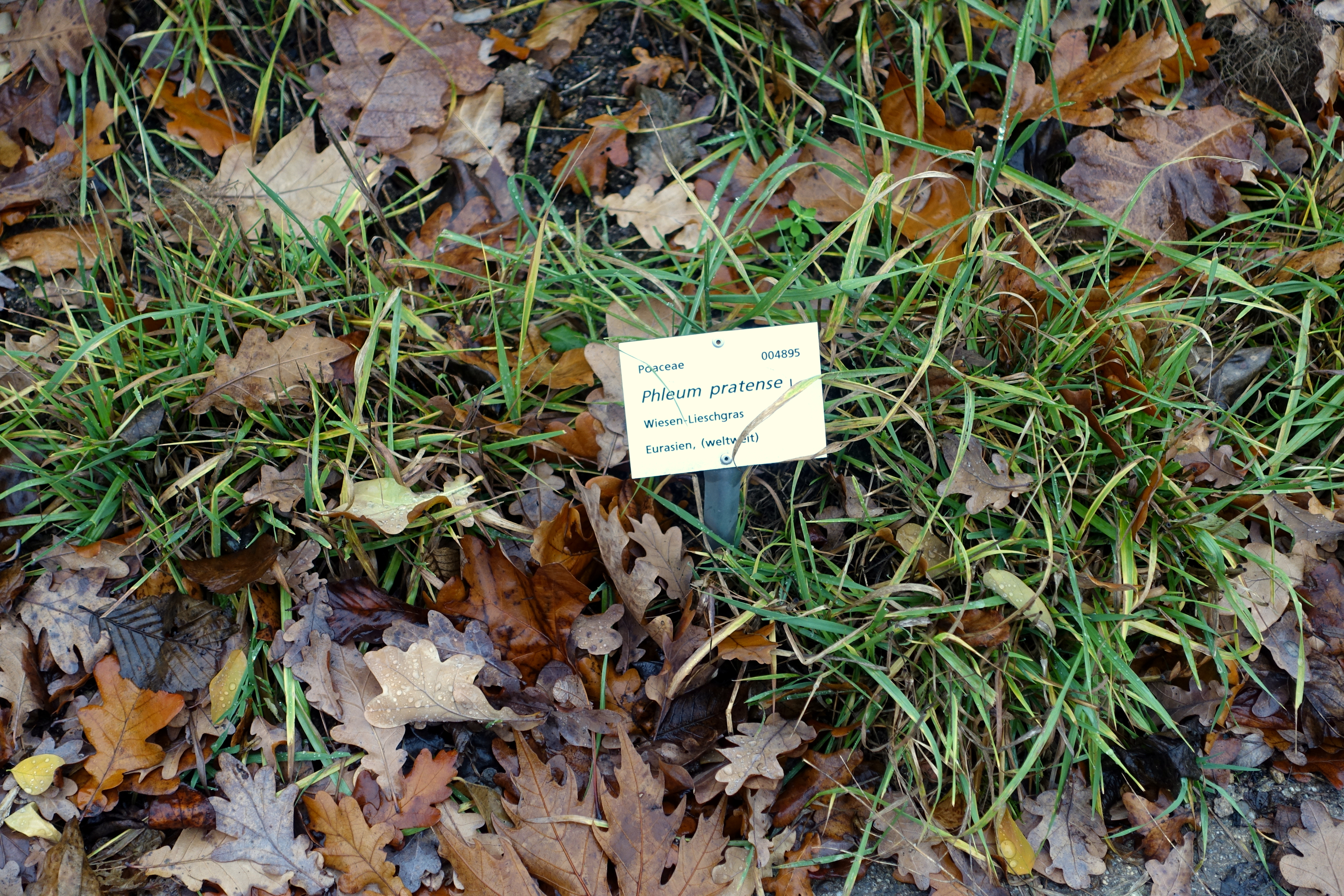 Botanical specimen in the Botanischer Garten - Heidelberg, Germany.